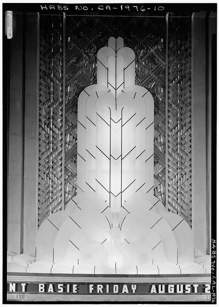 photograph of Paramount Theatre (Oakland, California). Fountain of Light